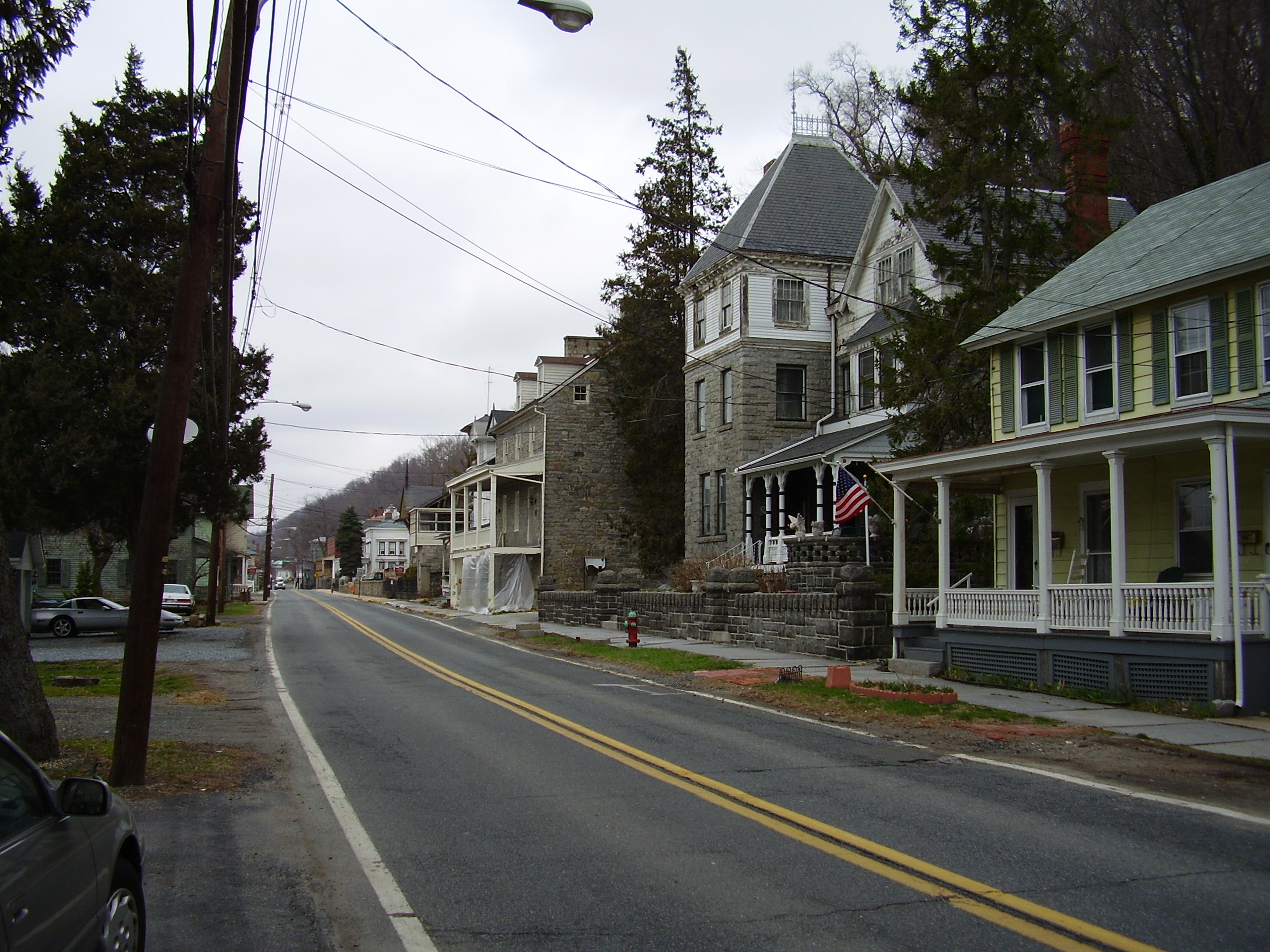 Port Deposit, Maryland buildings for use with article. Photo uploaded by photographer. All rights released. Williamborg 01:05, 28 March 2007 (UTC)